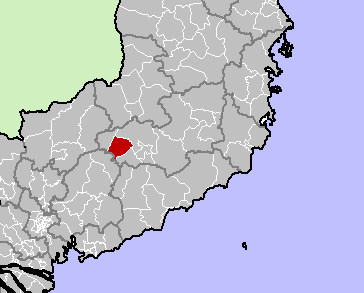 Da Teh District, Lam Dong Province, Vietnam.